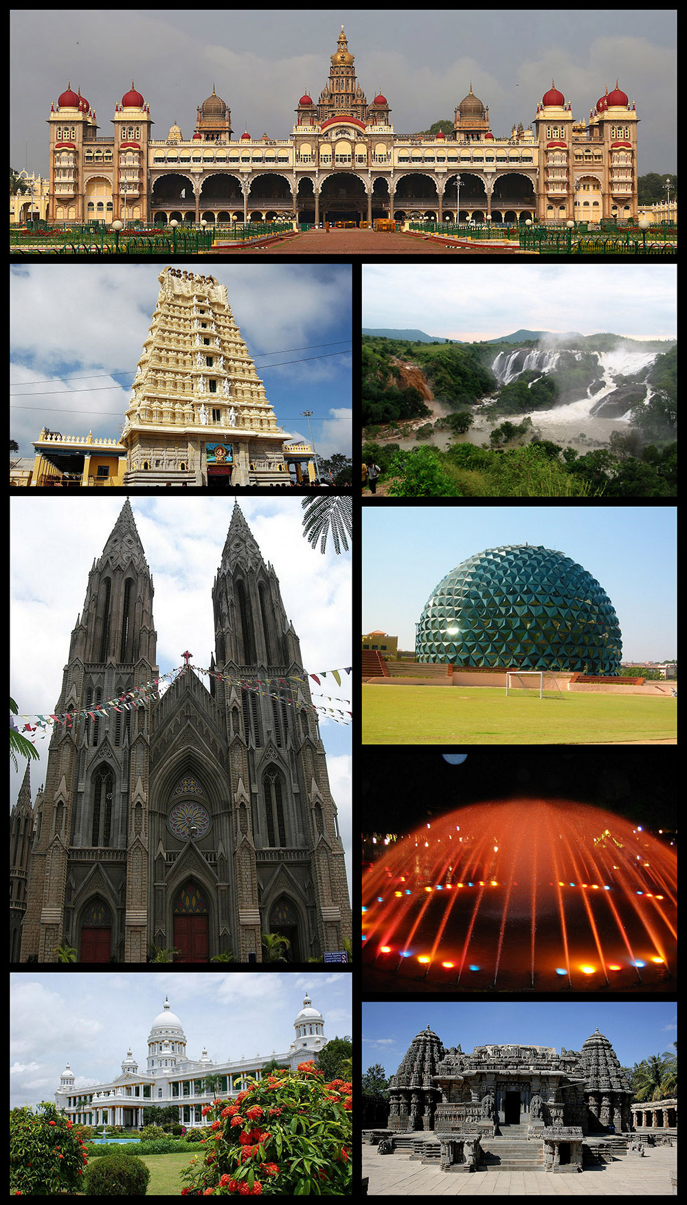 Sources Mysore Palace: File:Mysore Palace Morning.jpg Shivanasamudra Falls: File:Barachukki - a revelation.jpg Infosys Building: File:Mysore Infy bldg.jpg Brindavan Gardens: File:Fountain 1.JPG Chennakesava Temple: File:Keshava temple at Somanathapura, Mysore district.jpg Laitha Mahal: File:Lalitha mahal mysore ml wiki.JPG St. Philomena's Church: File:St.Philos church mysore.JPG Chamundeshwari Temple: File:Chamundeshwari Temple.jpg